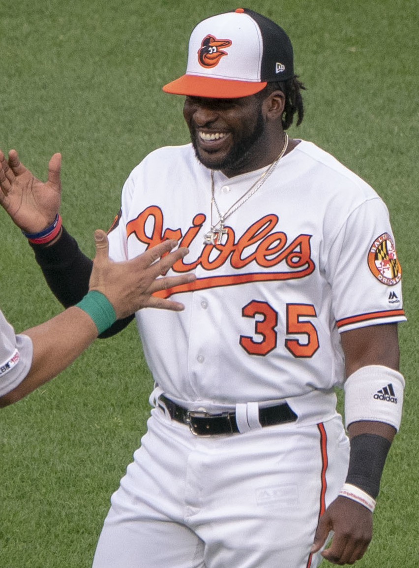 Athletics at Orioles 4/10/19